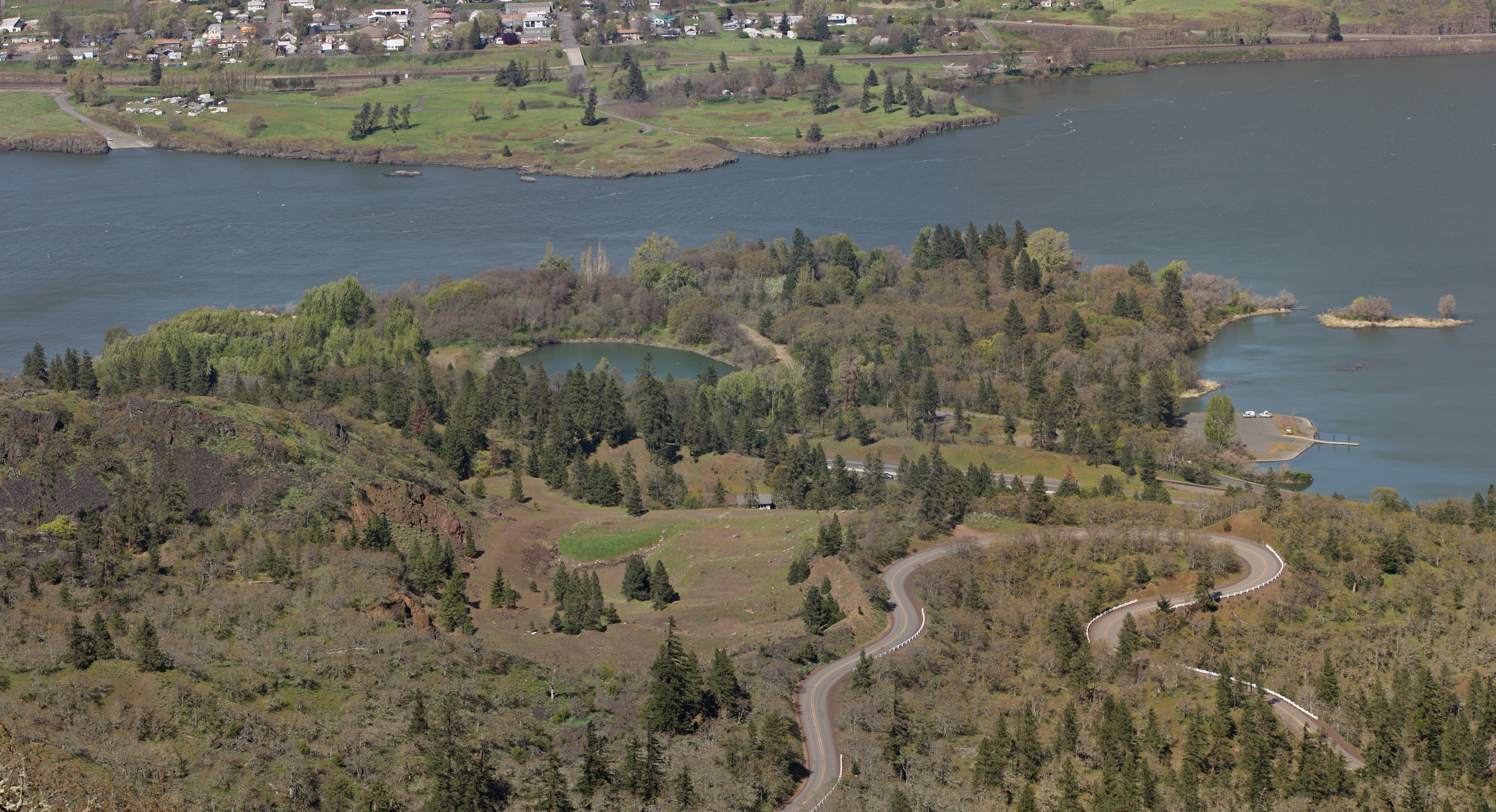 Columbia River with Mayer State Park and Historic Columbia River Highway (this side of river); stitched panorama; please see "Other versions" for source images. This image was created with Hugin. Viewpoint location: McCall Point Trail, Tom McCall Preserve Viewpoint elevation: 399 meter (1309 ft) View direction: 37° Location source: Garmin GPSmap 60CSx Location Datum: WGS84